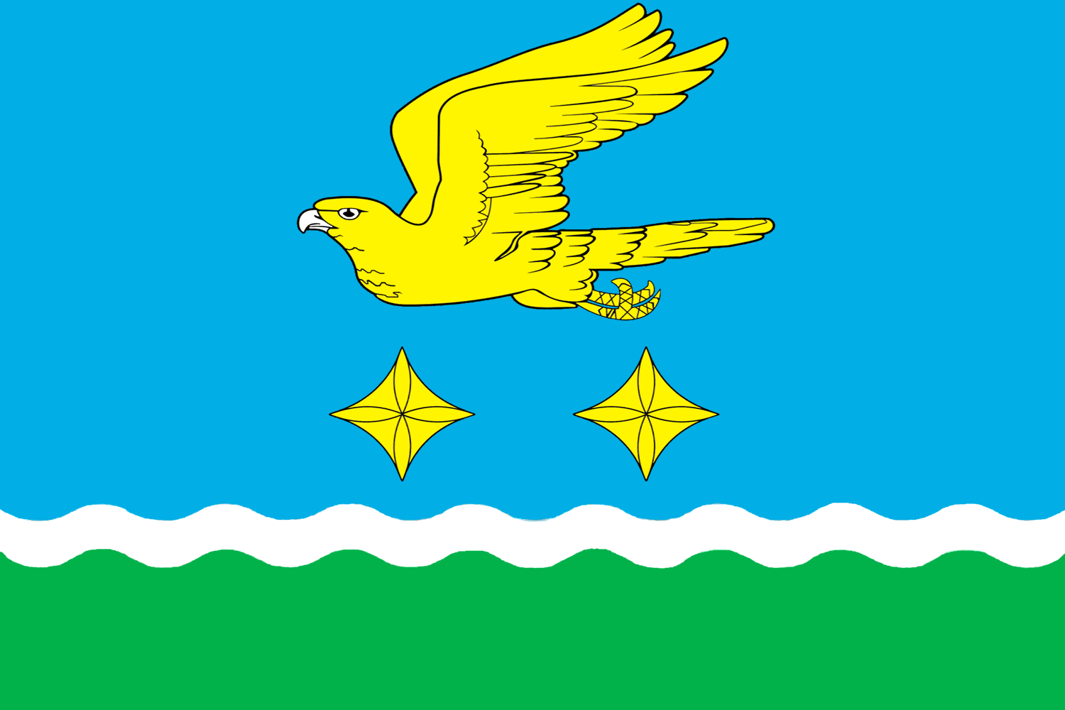 Stupino rayon (Moscow oblast), flag